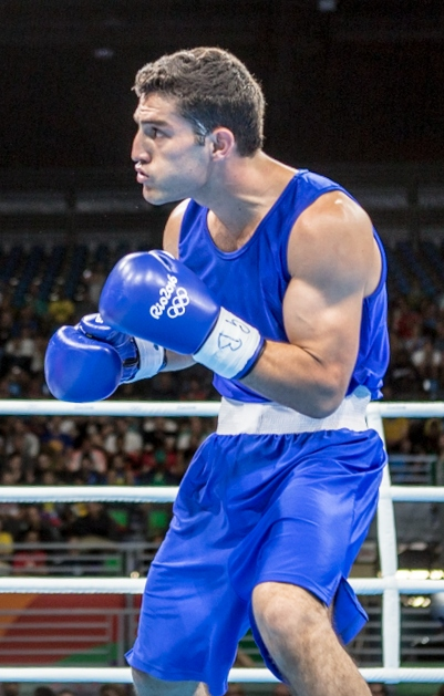 Day 3 at the 2016 Summer Olympics. Boxing 75 kg. Round of 32, Zoltán Harcsa (HUN) vs Arslanbek Achilov (TKM)